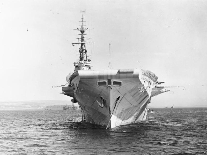 Ships of the Royal Navy, 1945 The aircraft carrier.HMS OCEAN at sea.